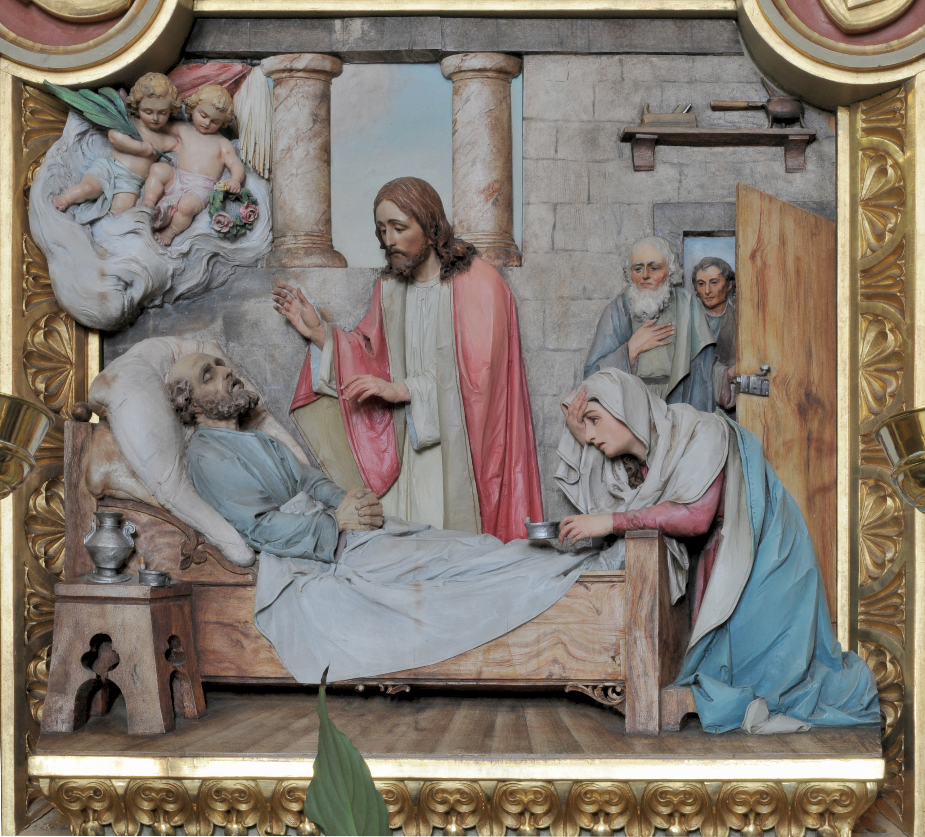 Death of Saint Joseph in a polychromed wooden relief carved by Albino Pitscheider. From the Parish church of St. Ulrich in Gröden ca. 1910